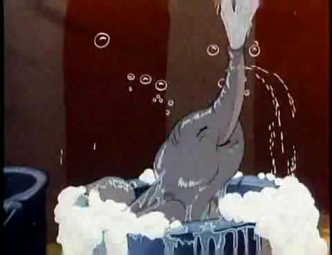 Screenshot of Dumbo from the trailer for the film Dumbo.